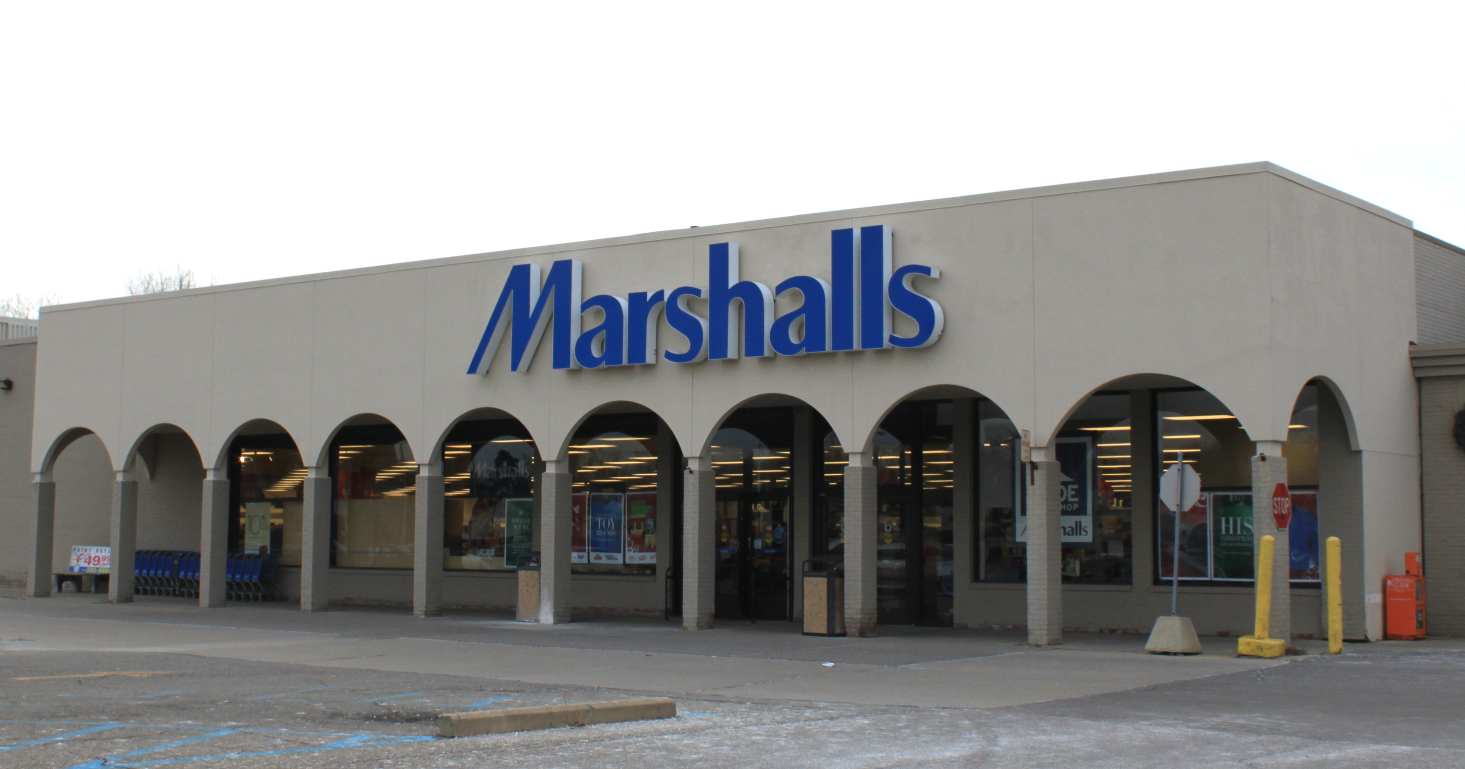 Marshalls store, Westborn Shopping Center, 23001 Michigan Avenue, Dearborn, Michigan